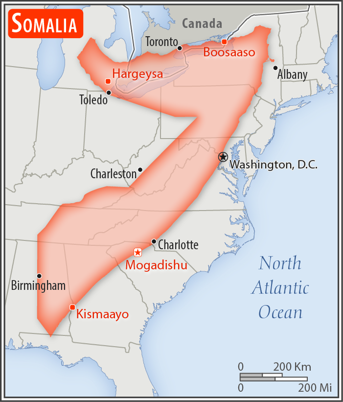 Comparison of the areas of two country. The area of Somalia with biggest cities (red) overlay the area of the United States of America (gray background).